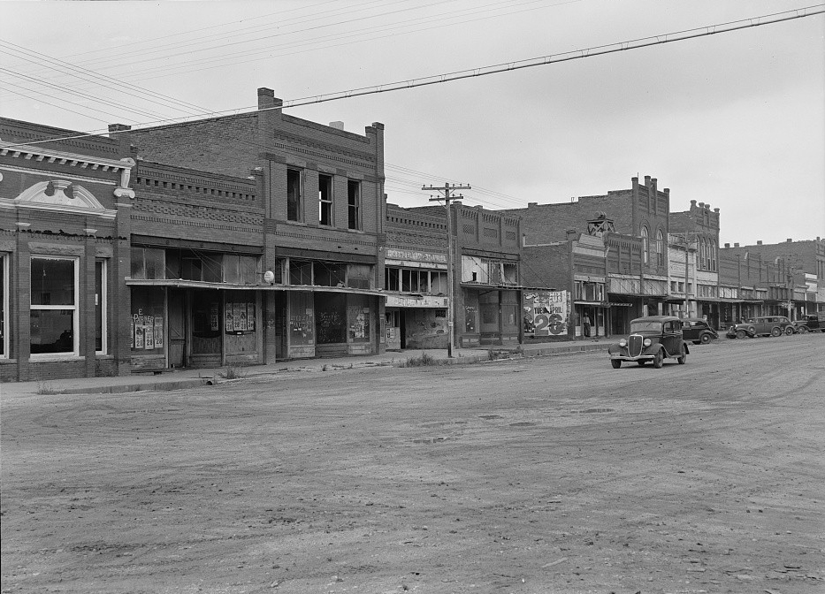 Buffalo Street in Caddo, Oklahoma as captured by Dorothea Lange during The Great Depression. Depression and drought struck towns as well as farms. Laborers, clerks, building tradesmen immigrated as well as farm people. Caddo, Oklahoma